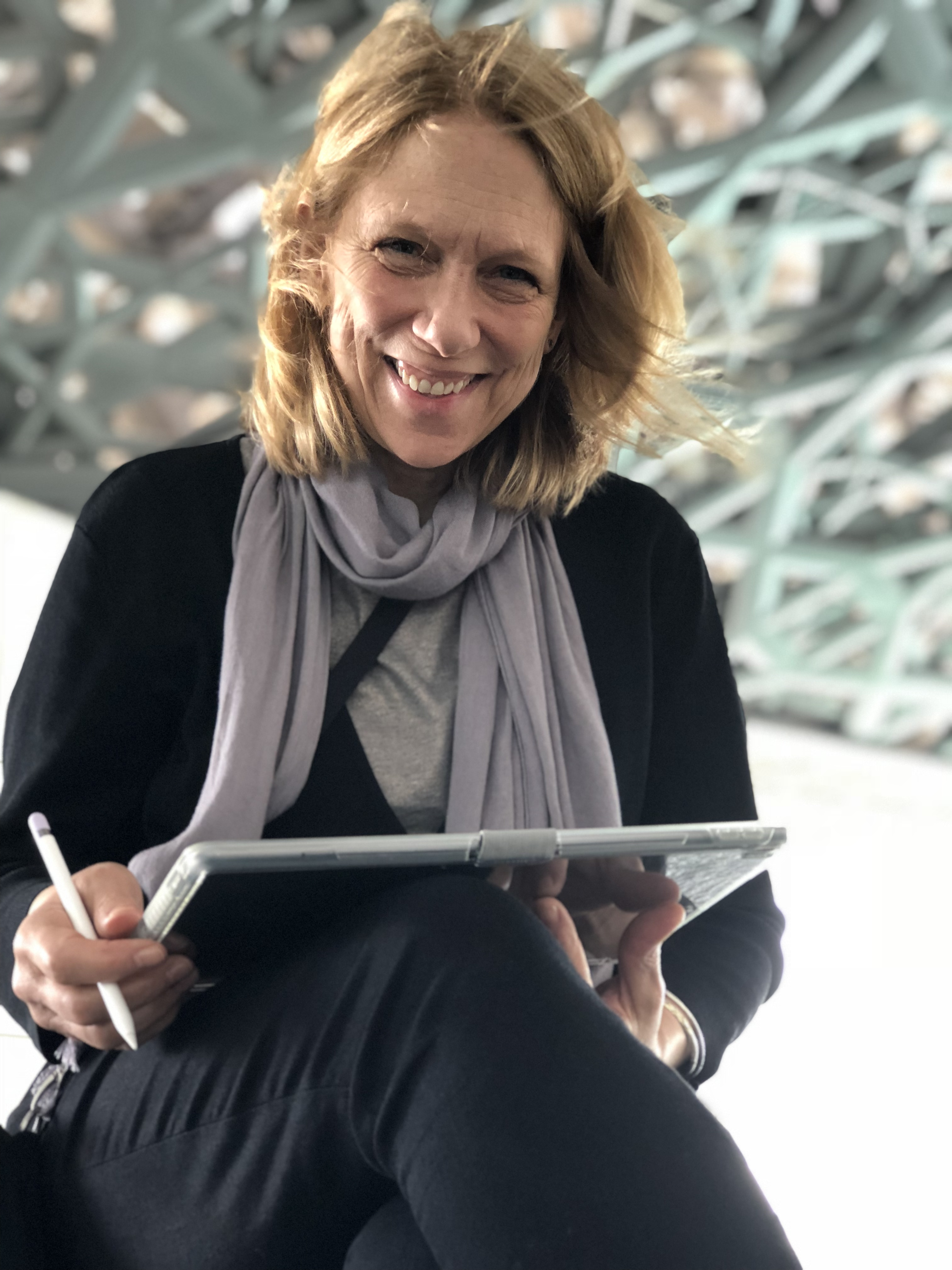 Liza Donnelly, cartoonist, at the Louve Abu Dhabi in 2018